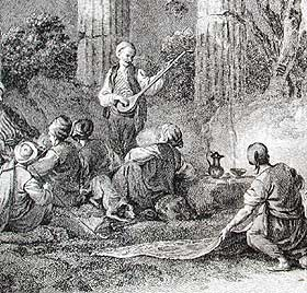 Source URL